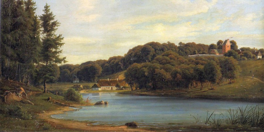 Painting of Søllerød Sø North of Copenhagen, Denmark